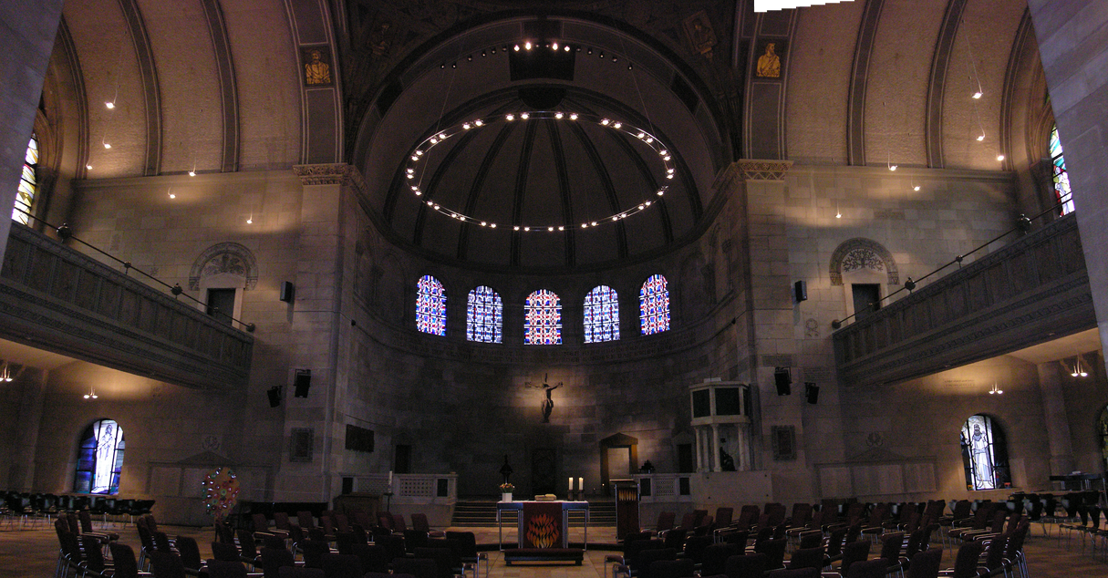 Interior/chancel of Kreuzkirche Düsseldorf